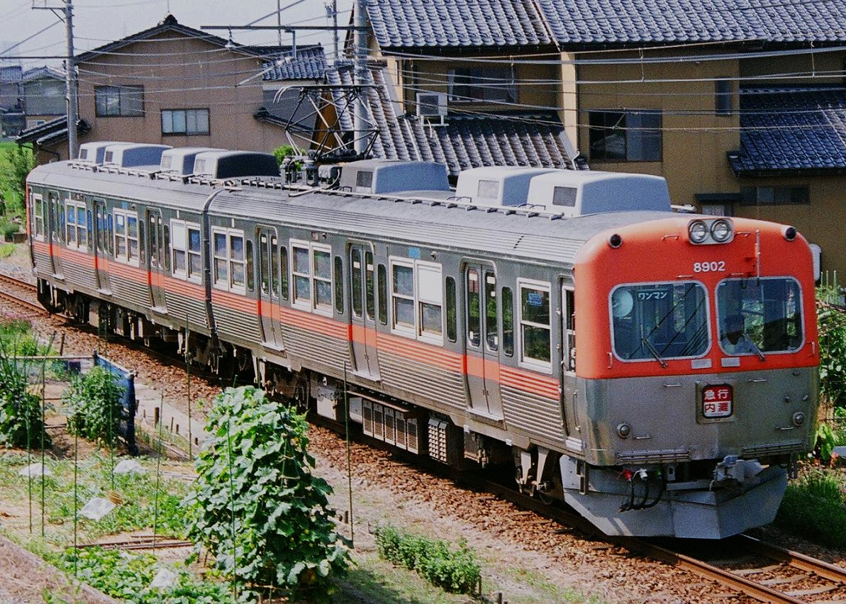 Hokuriku Railway 8900 series EMU set 8902 on the Asanogawa Line